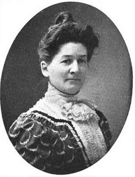 Mabel Allen Foster of Chelsea, Vermont